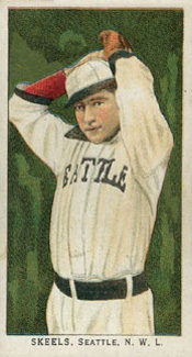 Dave Skeels baseball card. Pfyl is shown with the Seattle Giants